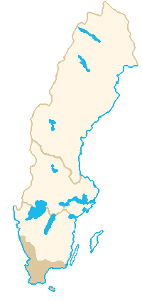 Map of Sweden with the historical region Skåneland (or Skånelandskapen) highlighted.